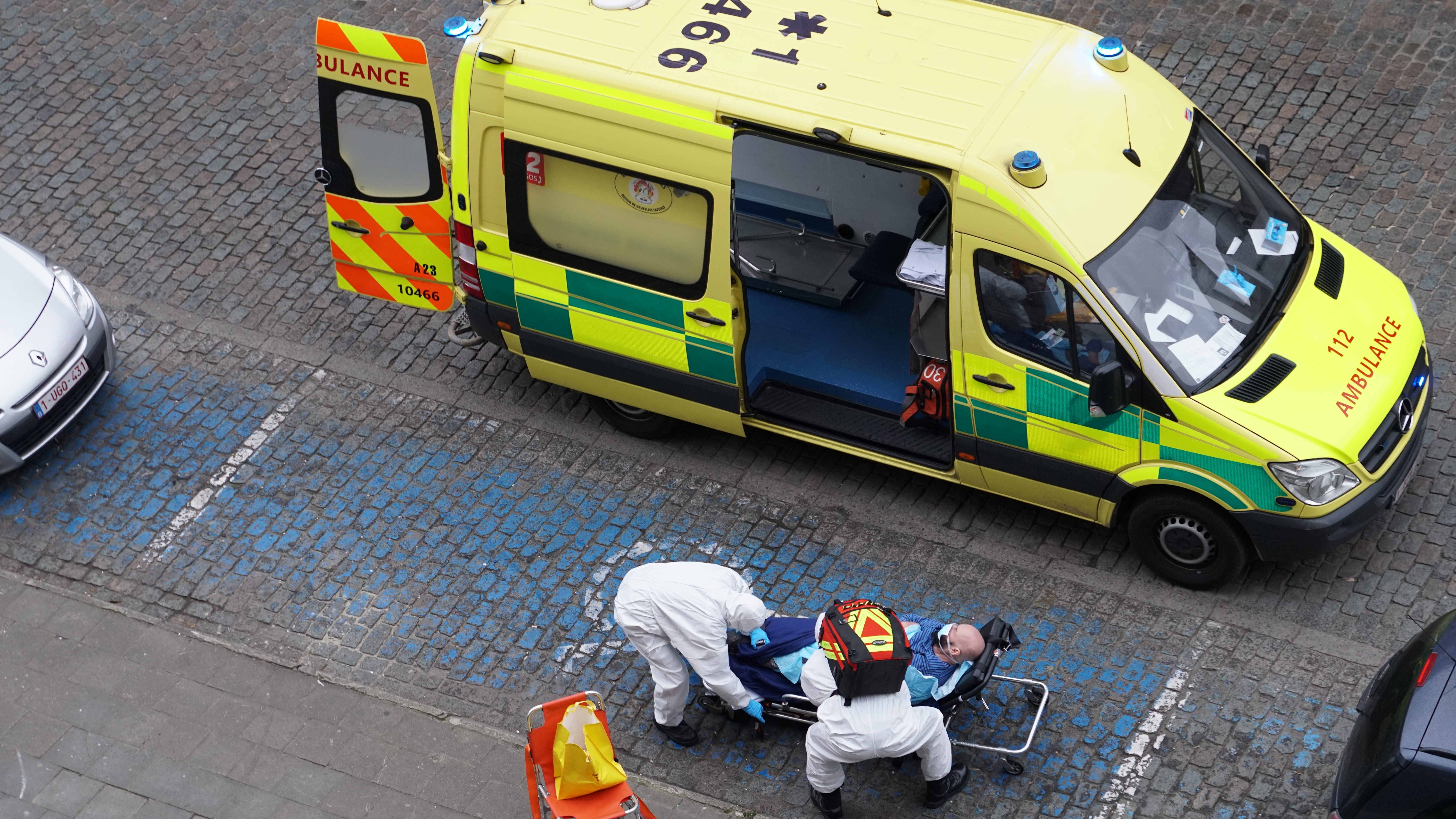 Divers 2020 - March Photos of March 2020 Photos de mars 2020 ( Diverses photos prisent en 2020 sans sujet reel. Various pictures taken in 2020 without real subject. )